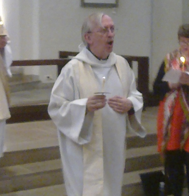 Tuomas Mäkipää (left) and Martin Dudley (centre), Mikael Agricola Church, Helsinki, Candlemas 2015.